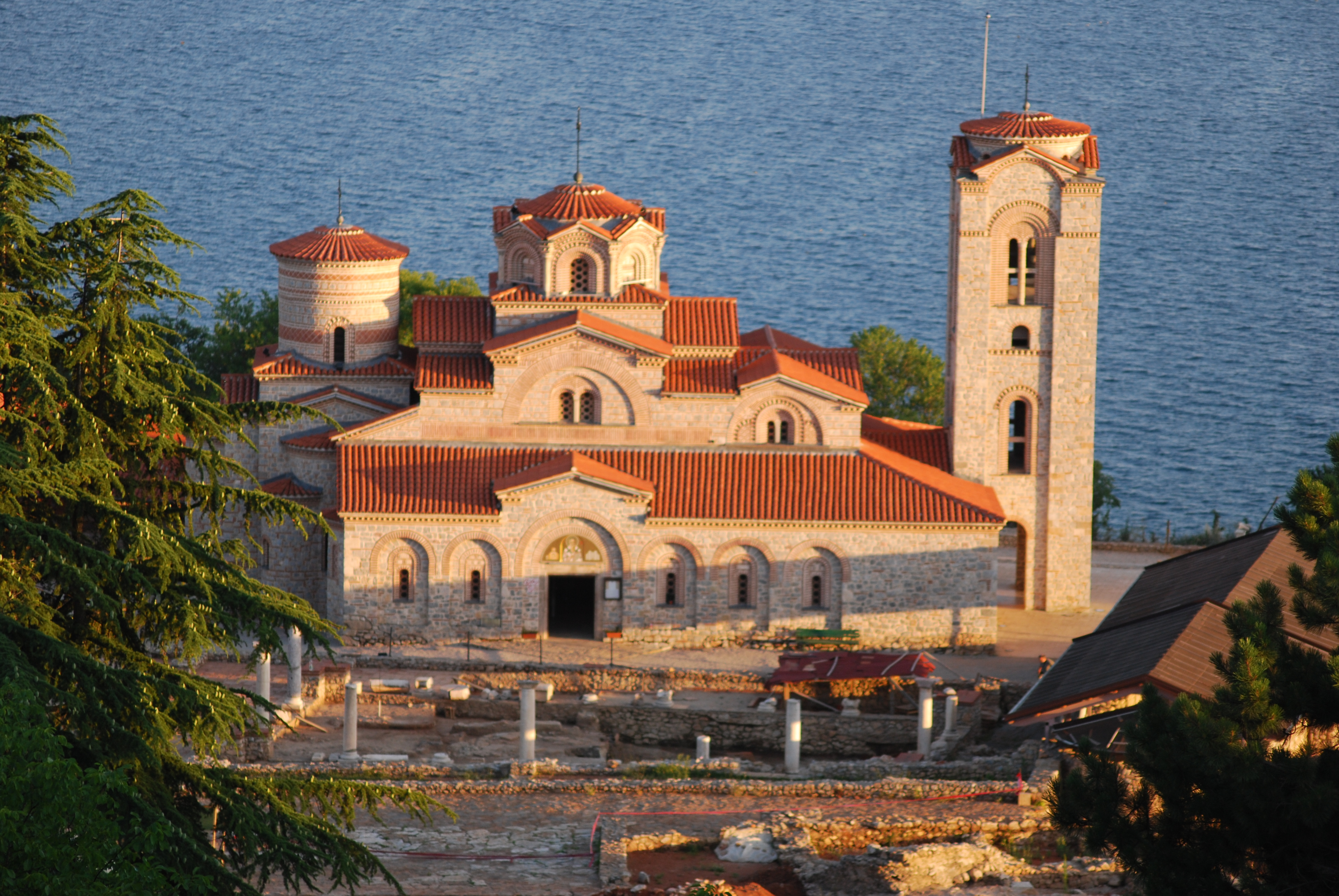 The Church of St. Kliment & St. Pantelejmon at Plaošnik in Ohrid, Macedonia